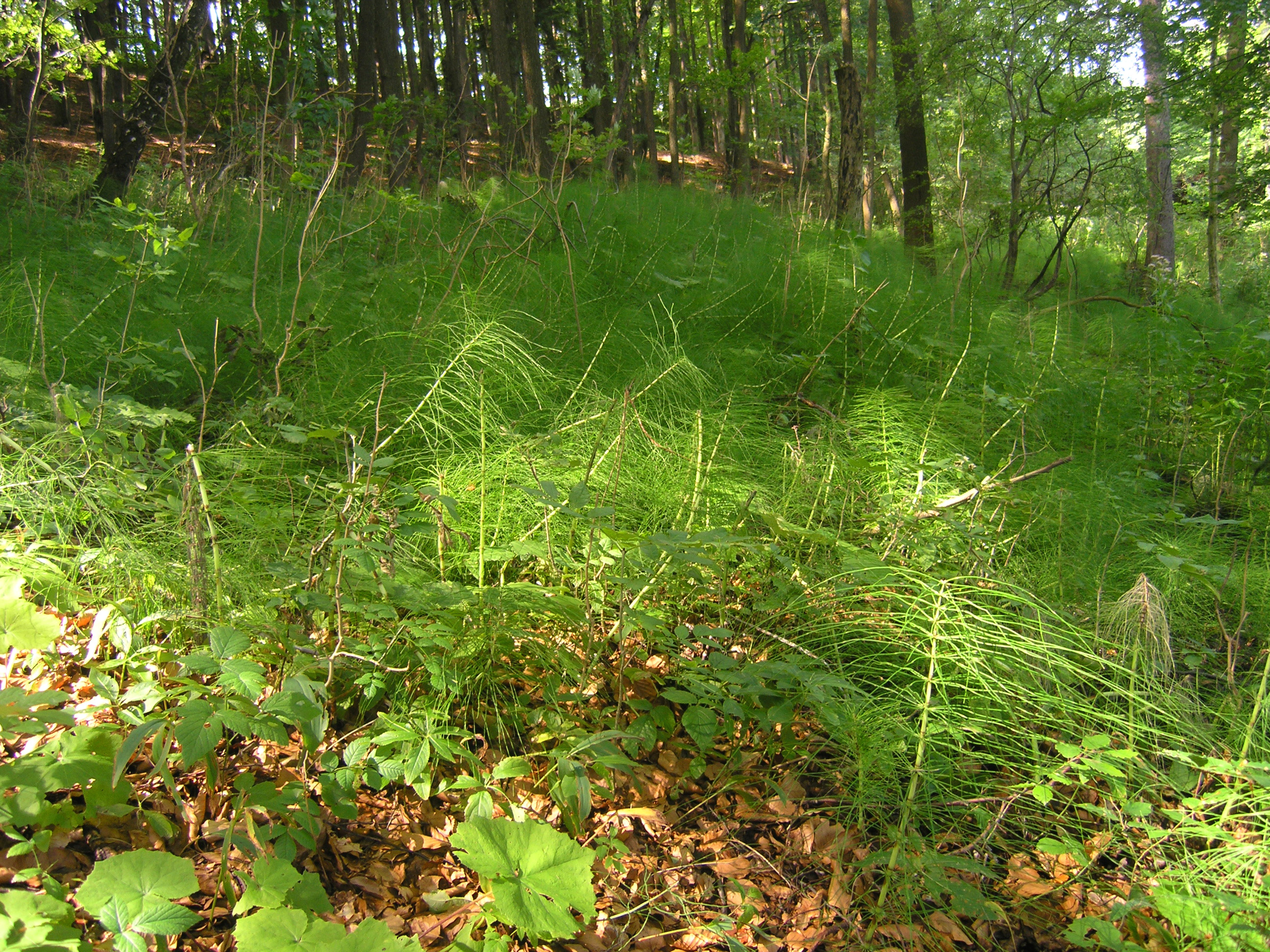 Great Horsetail (Equisetum telmateia Ehrh.) in Na Hranicích natural reserve by Bukovina village, part of Turnov, Czech Republic